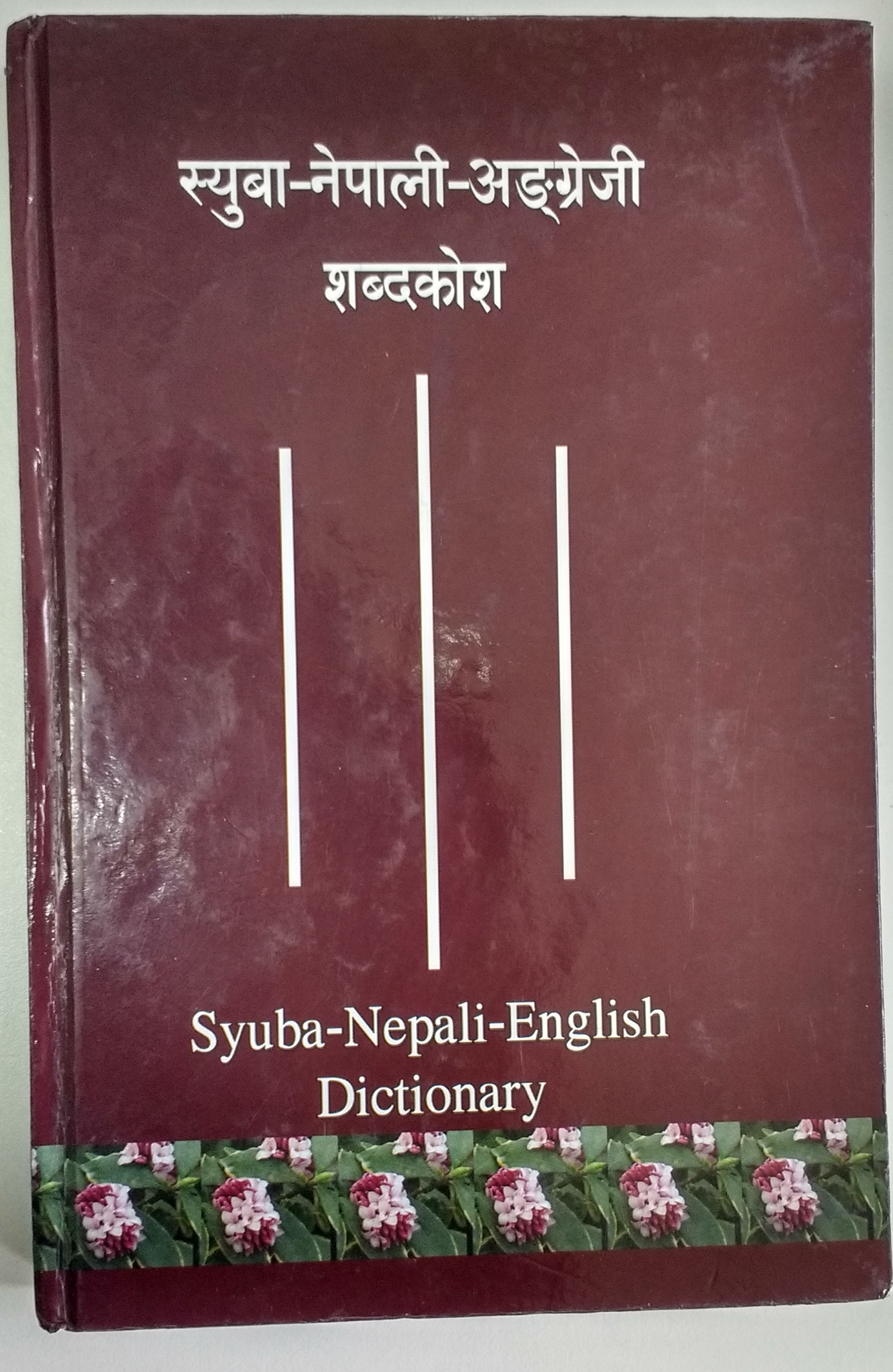 A photograph of the cover of the Syuba-Nepali-English Dictionary